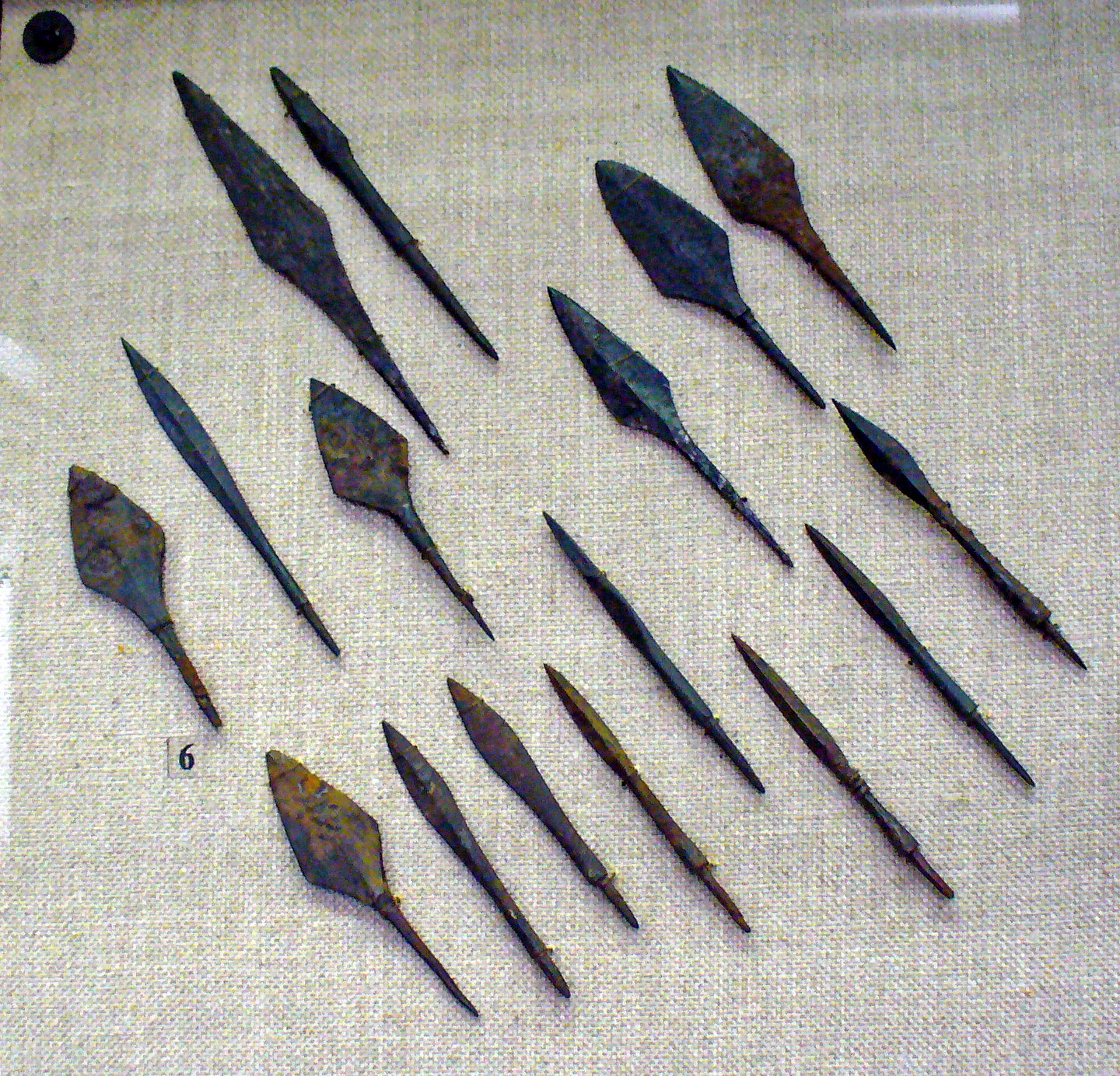 Arrowheads, Ancient Rus'.